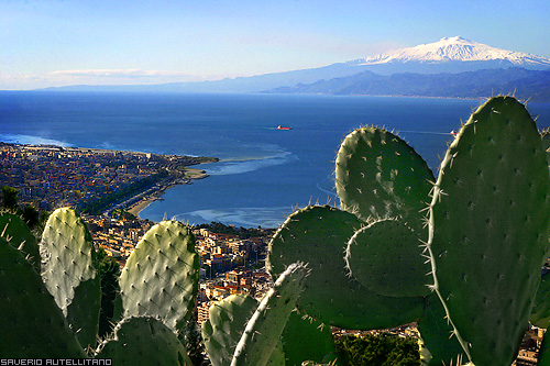 Reggio Calabria, city view from Pentimele hill's blockhouse. Released in CC-BY-SA-2.5-IT by its author Saverio Autelliano.